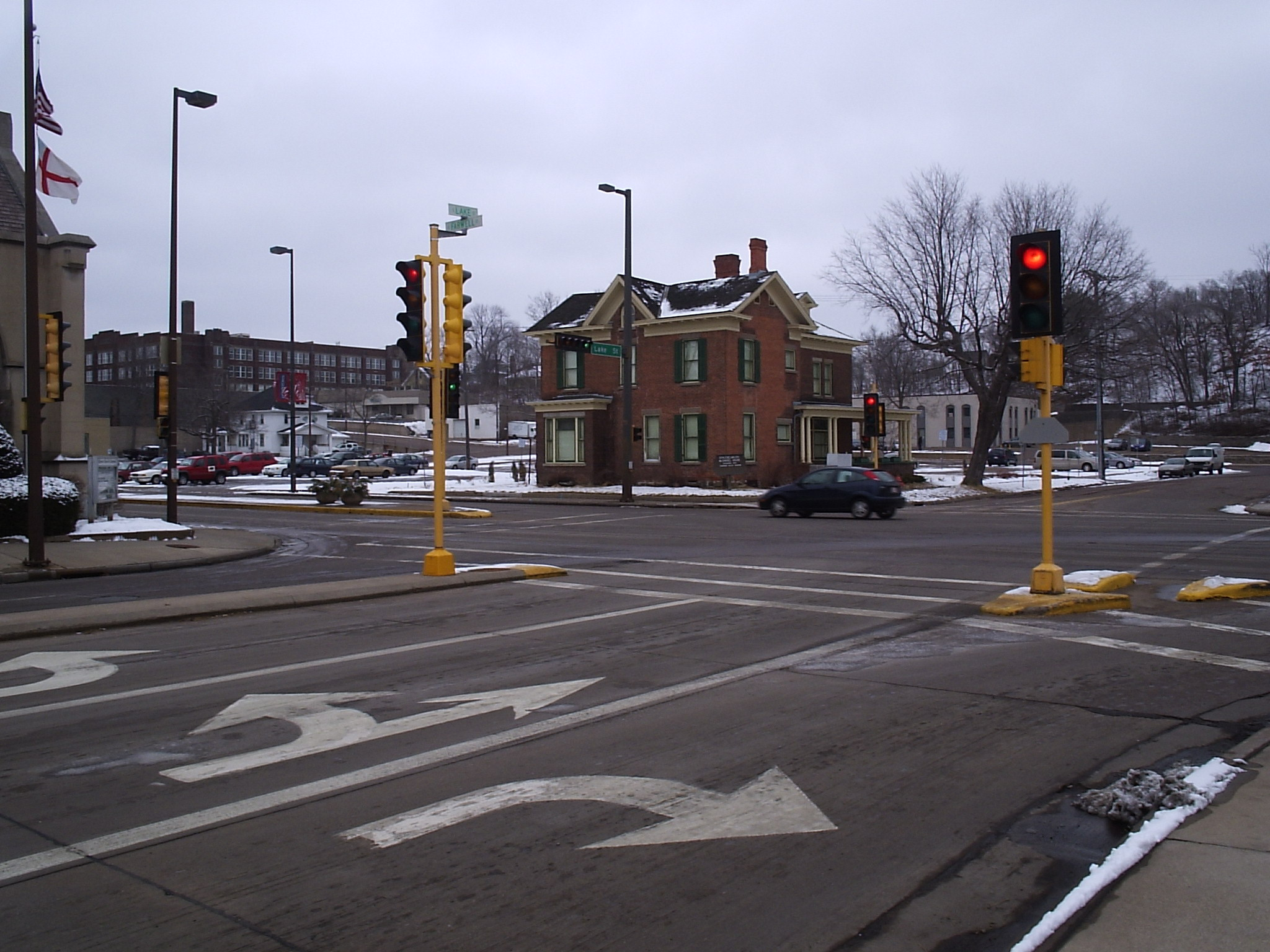 The Schlegelmilch-McDaniel House — taken from kittycorner across Lake and Farwell. The Christ Church Cathedral can be seen on the left side of the image. The large building in the background on the left is the old Central High School, which is now the Eau Claire Area School District headquarters.